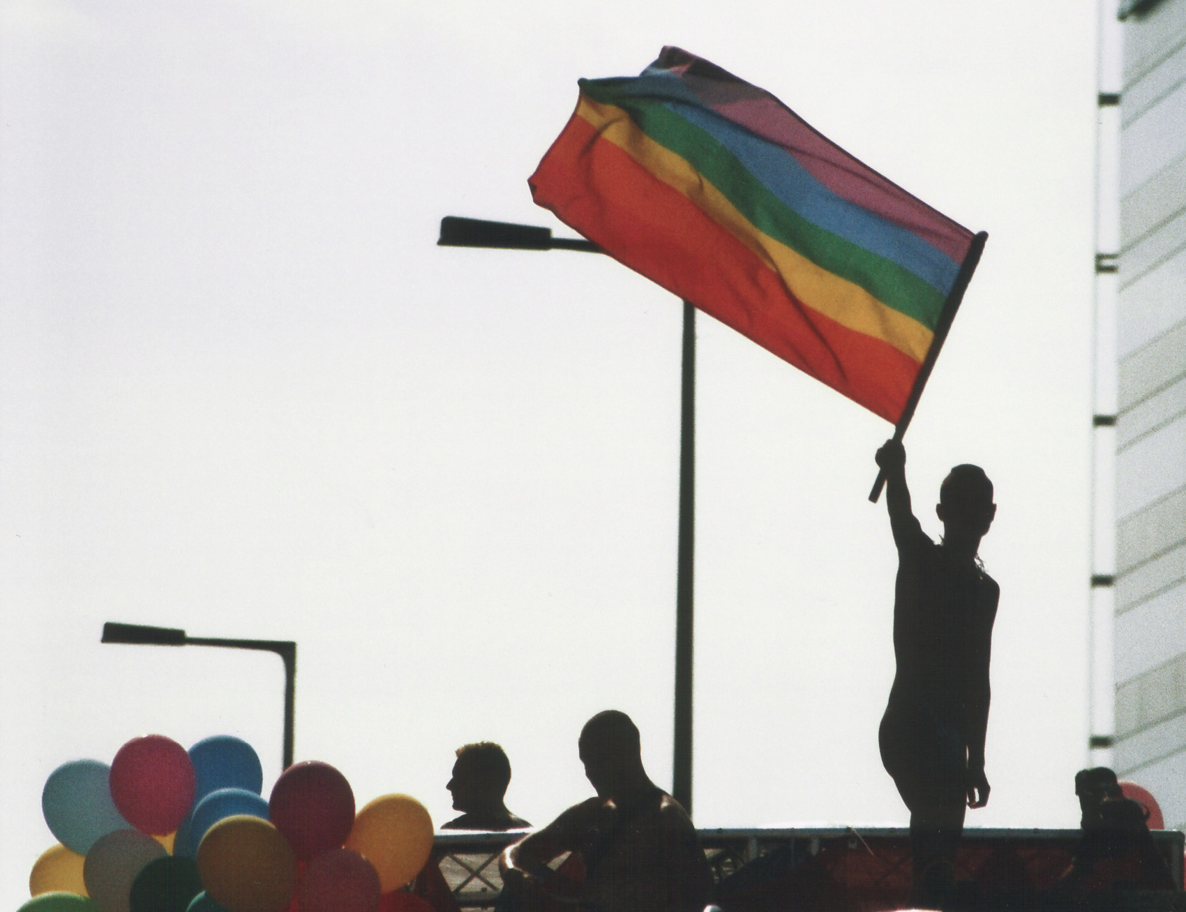 Activist waving the gay pride flag at the Christopher Street parade in Berlin. He is standing on top of one of the many trucks taking part in the parade. Photographed by Klafubra in Summer 2002